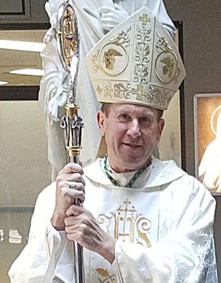 Joseph Mark Spalding, the twelfth bishop of the Diocese of Nashville, in 2019.